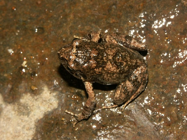 Arthroleptis palava